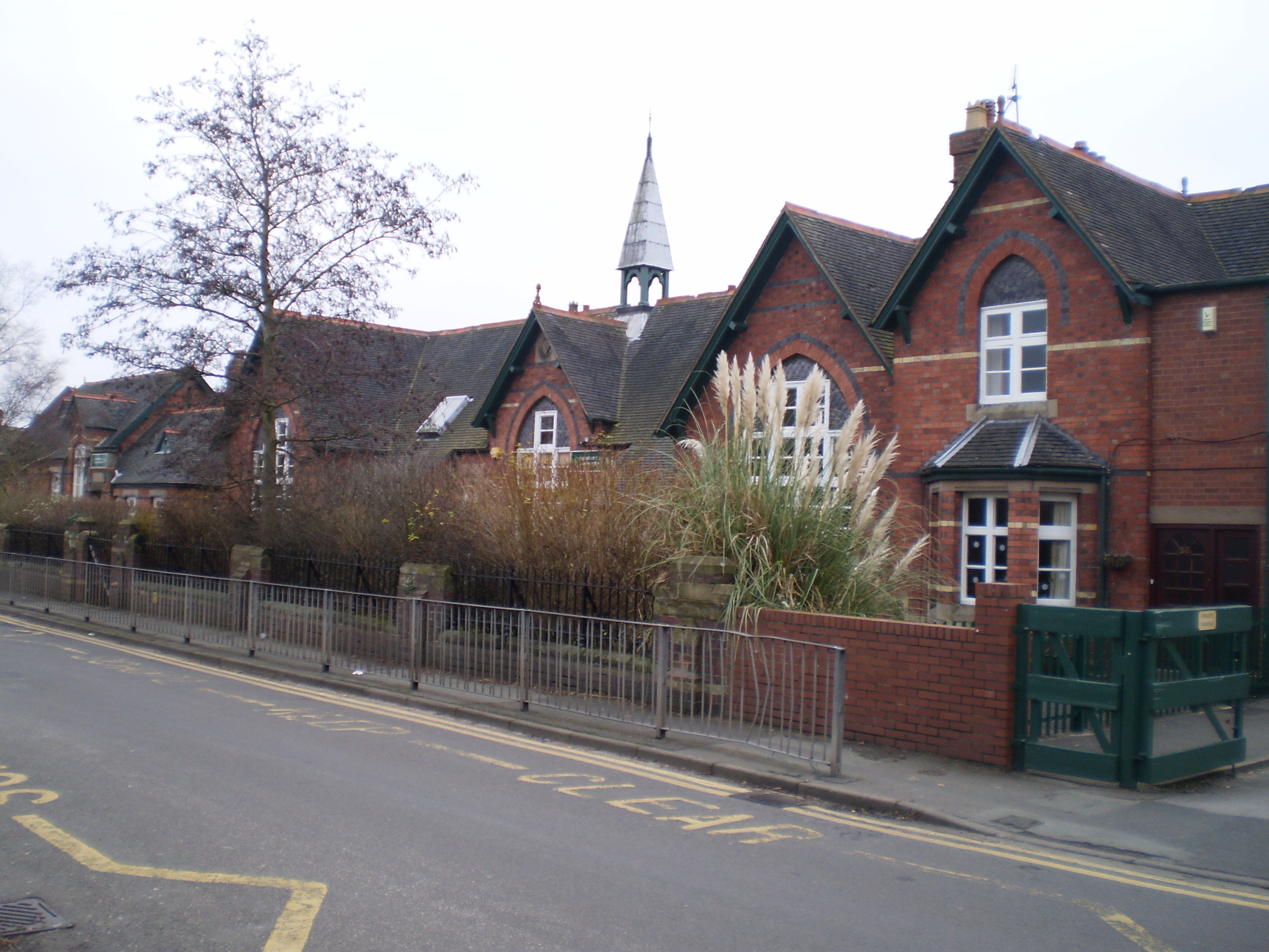 Newport Junior school,Newport, Shropshire, England.